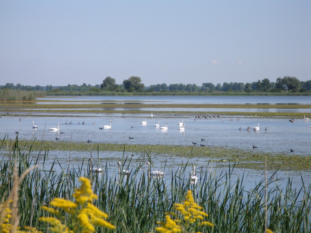 Lake